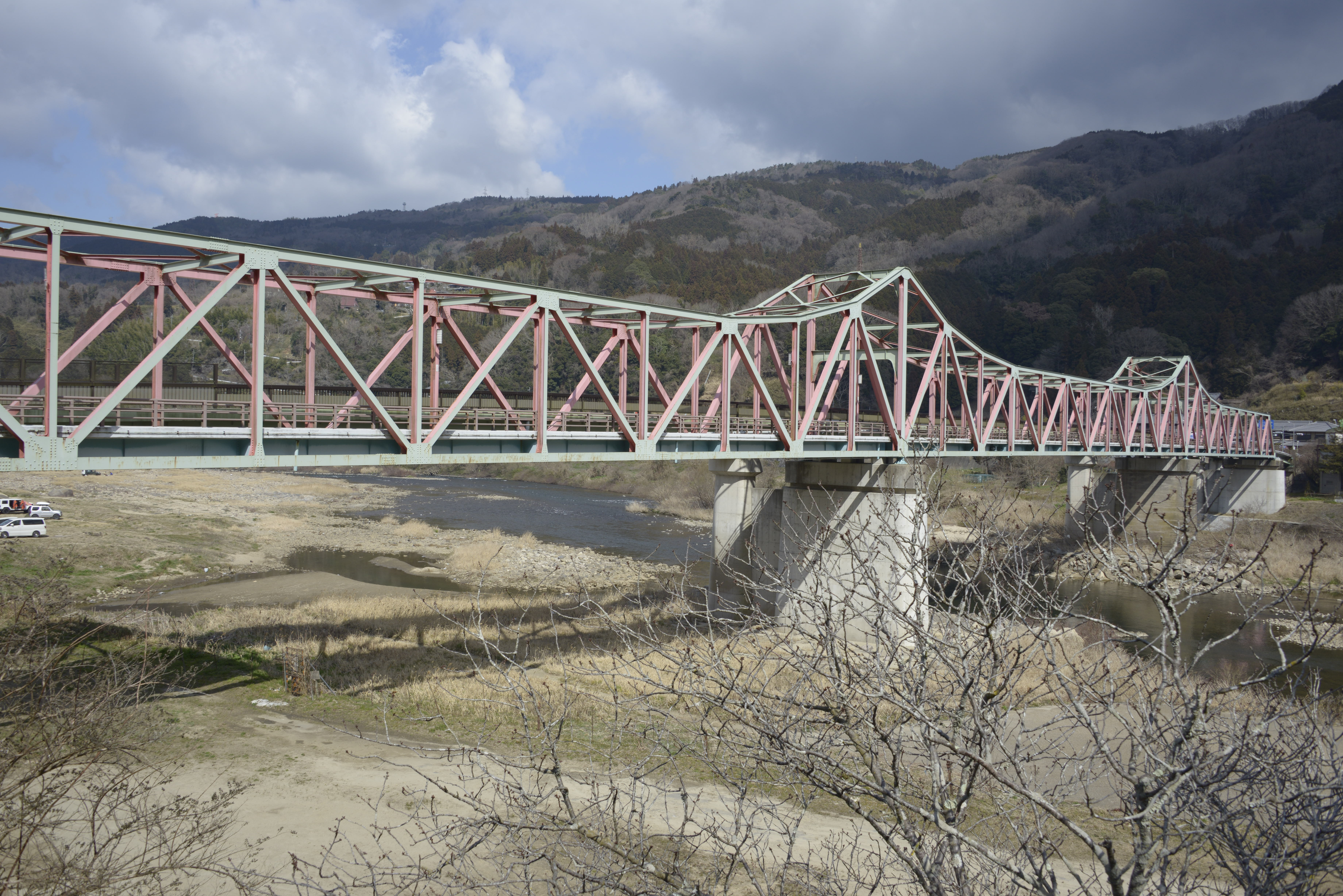 kasagi,kyoto